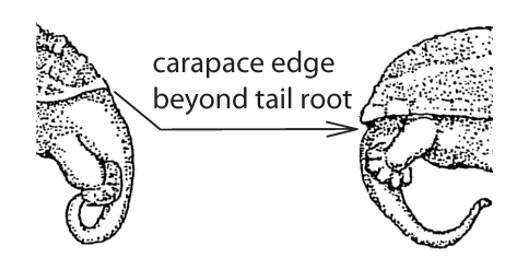 Standard Event System character depiction